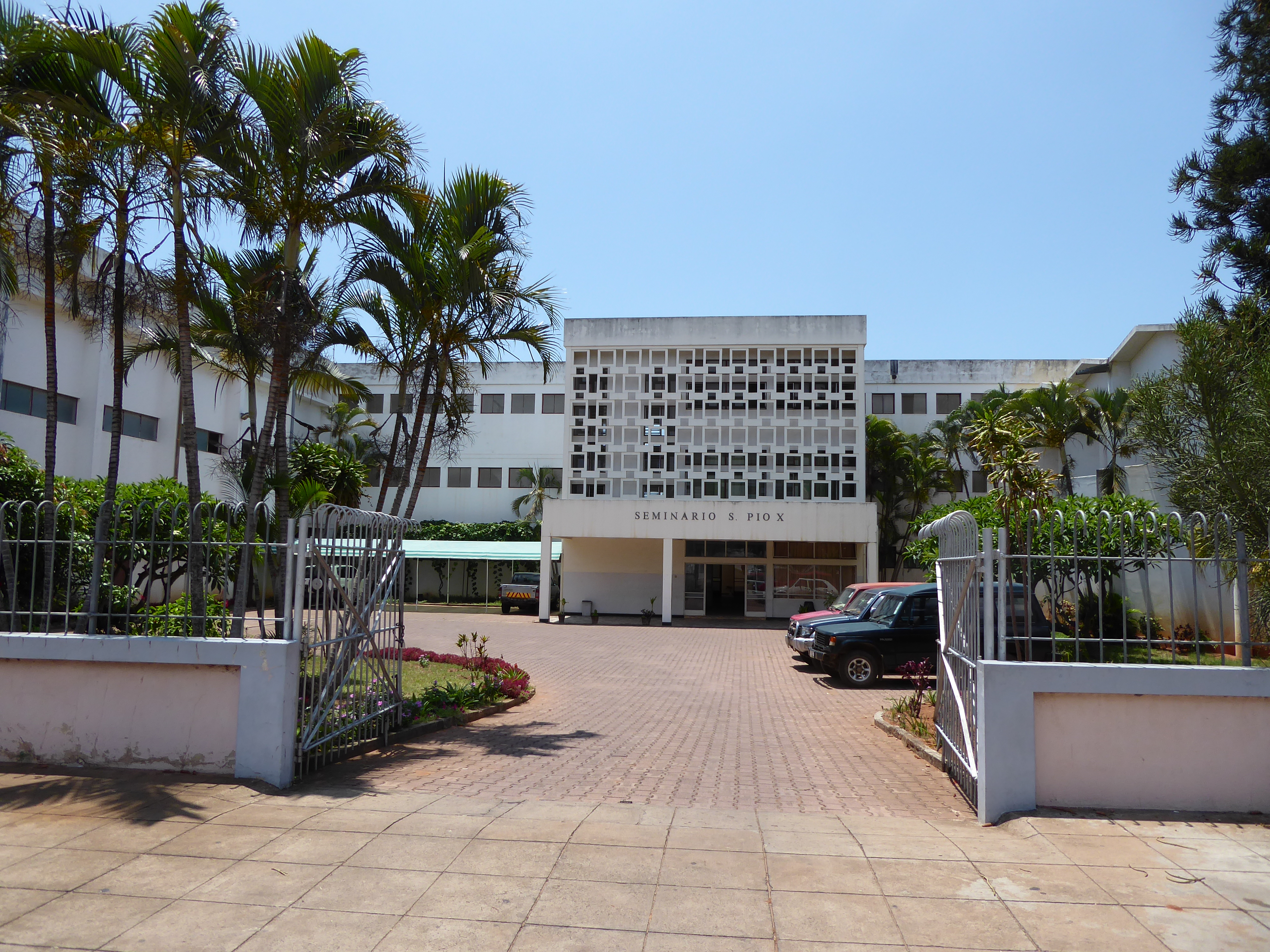 Seminary Pius X, Maputo, Mozambique